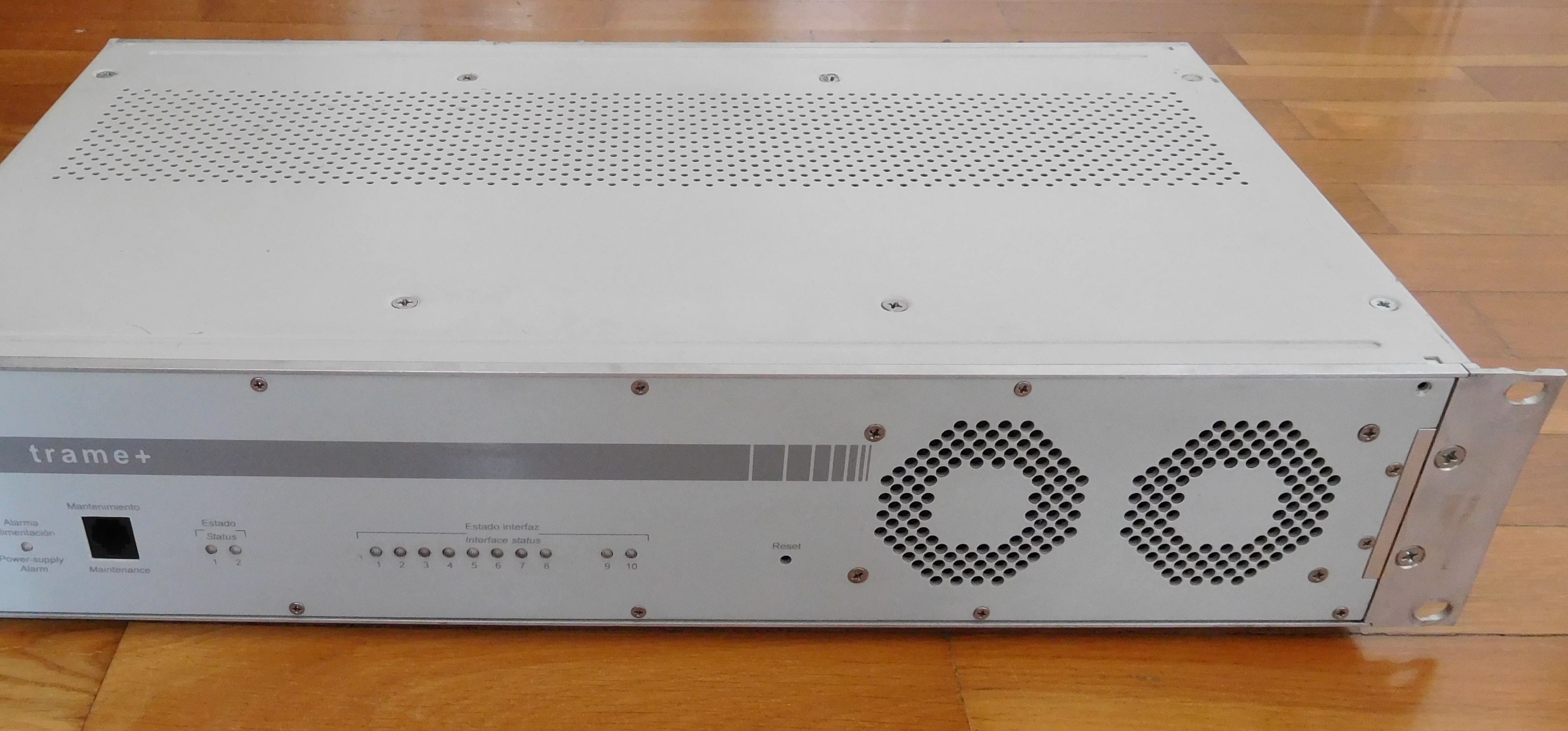 Image of a TRAME+ router